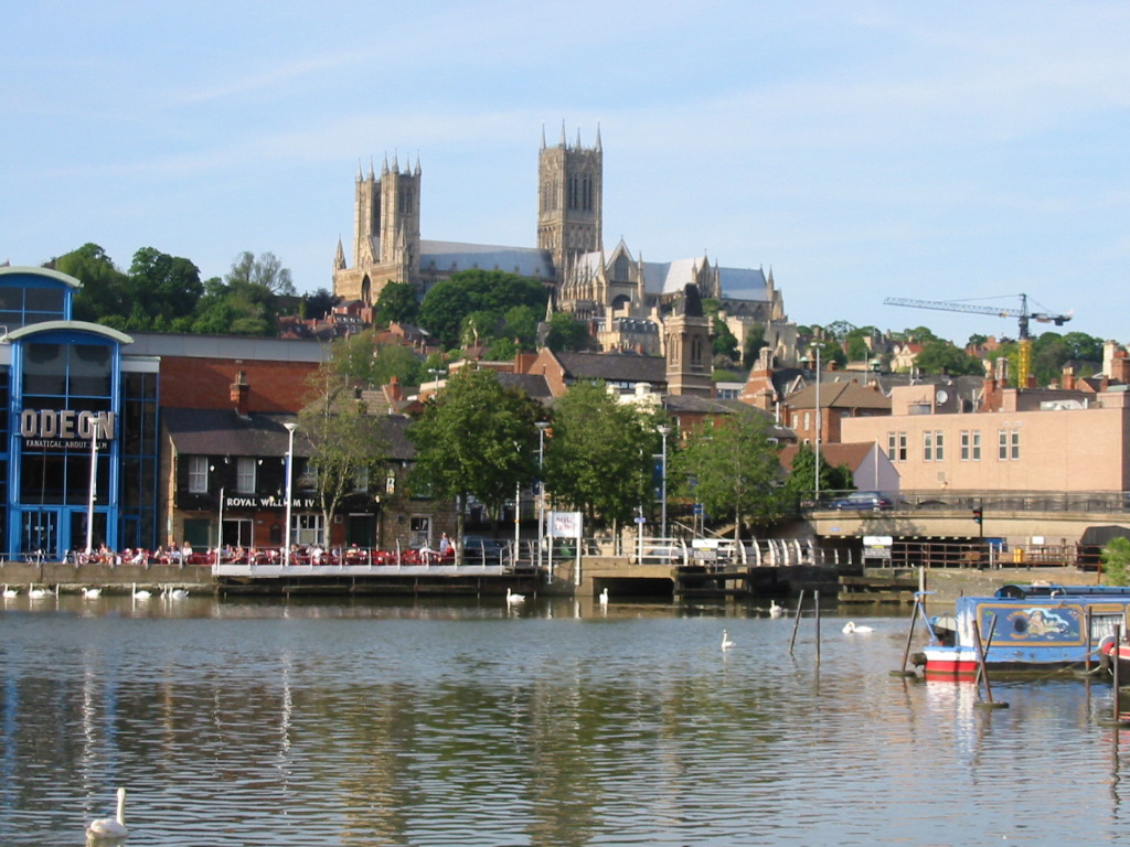 Lincoln Cathedral viewed from the Brayford Pool area of Lincoln, where the Foss Dyke meets the River Witham.